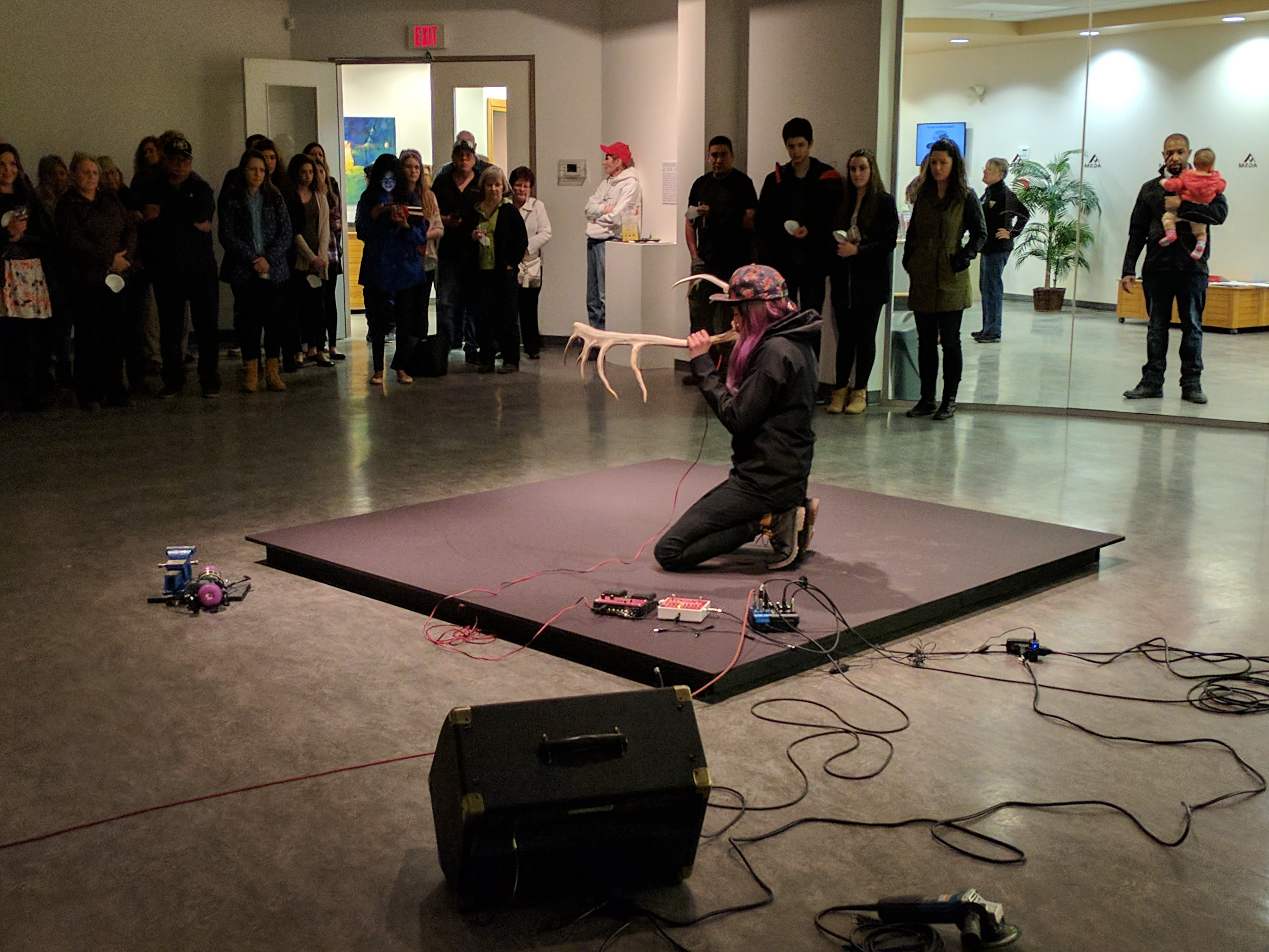 Jeneen Frei Njootli performing "Herd" as part of Wnoondwaamin curated by Lisa Myers at the Art Gallery of Southwestern Manitoba